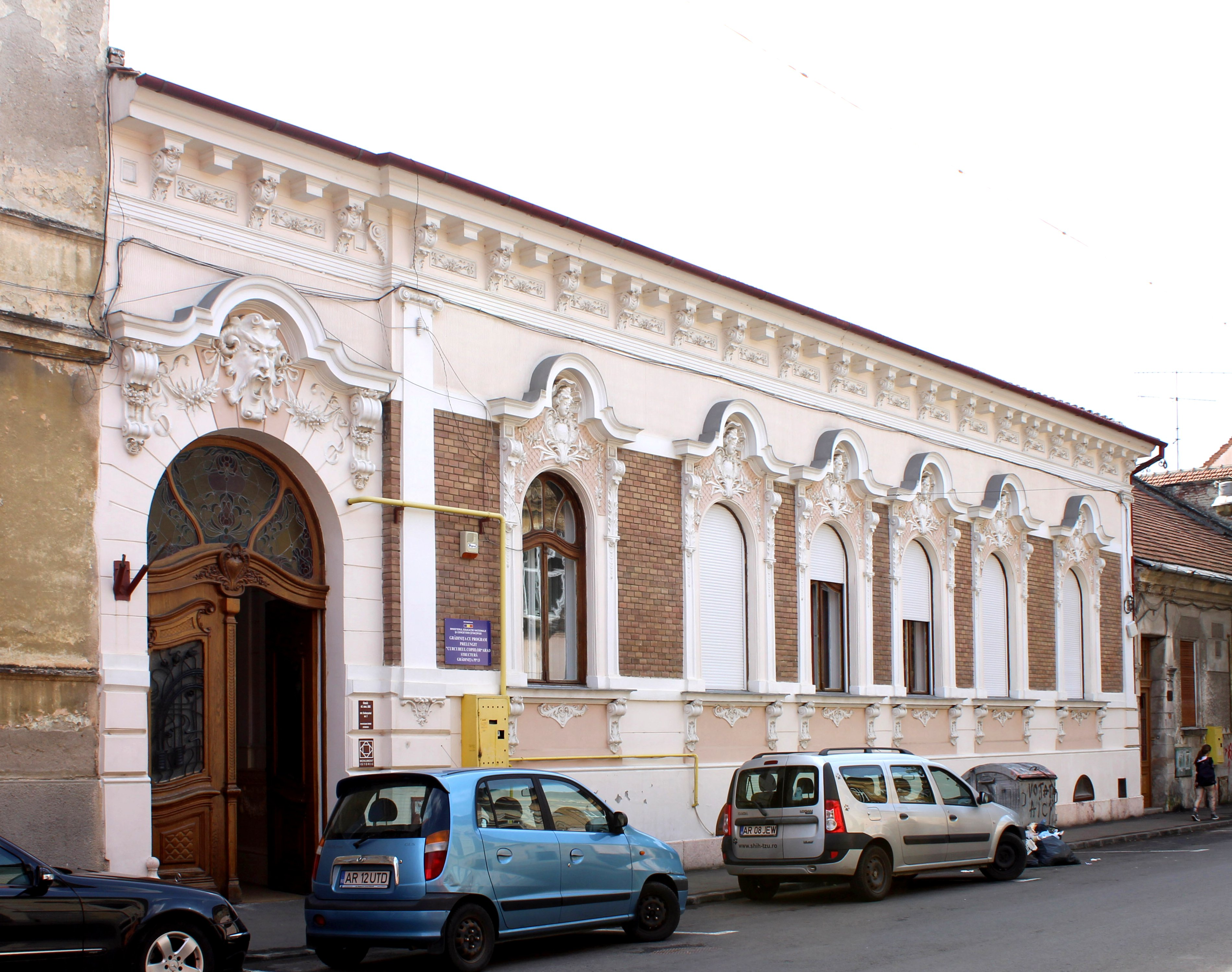 House, str Ion Georgescu no 7, today kindergarten, Arad, Romania, built 19th century.